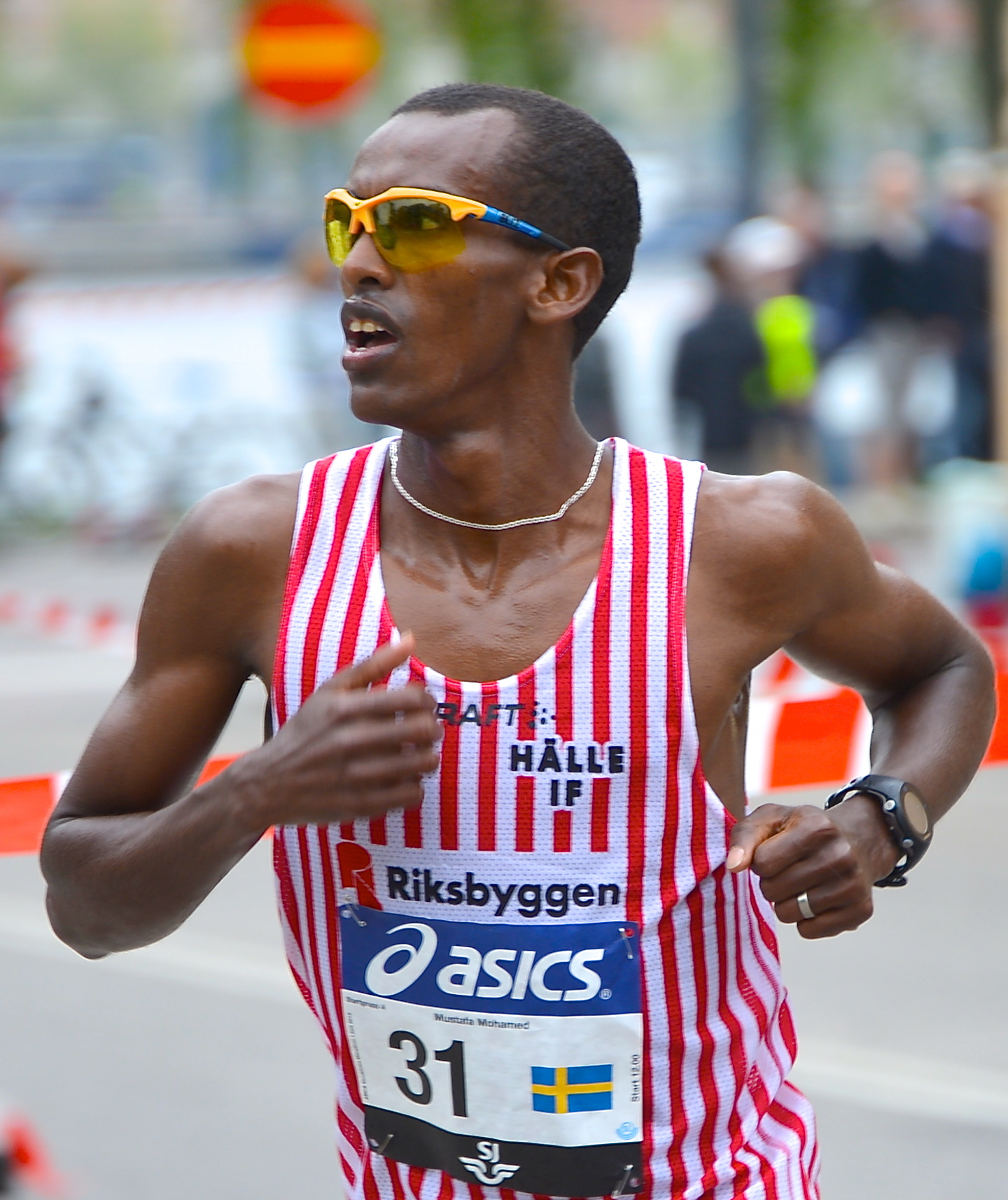 Mustafa Mohamed in Stockholm Marathon on June 1, 2013.